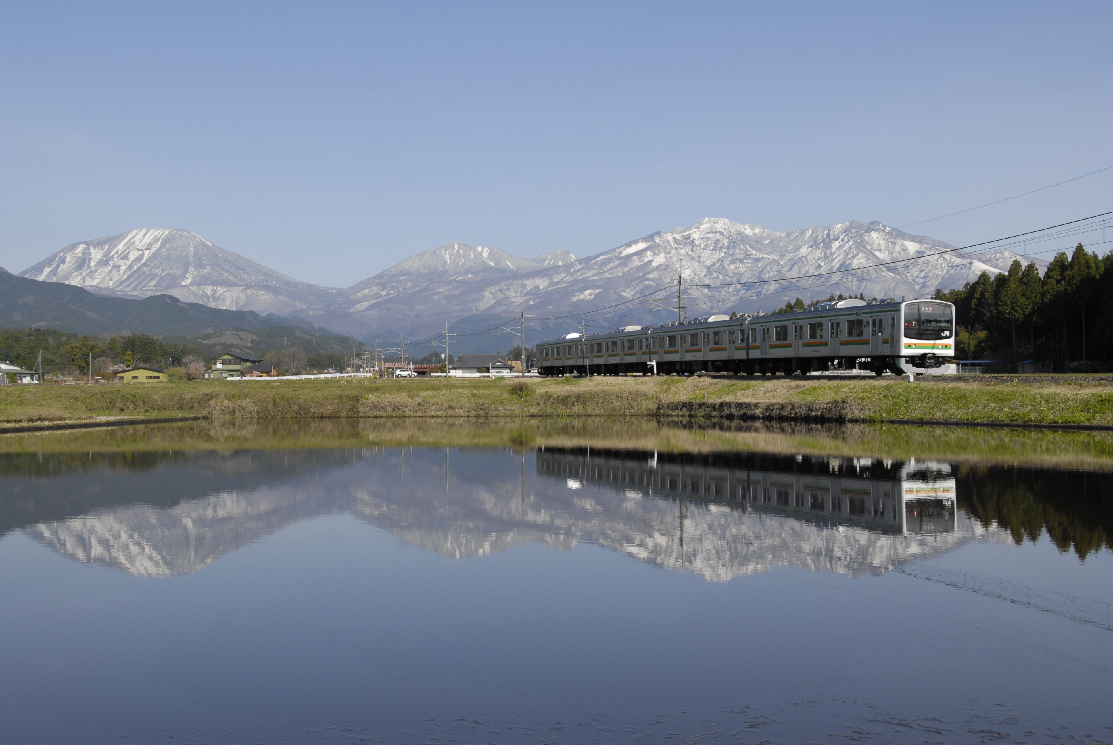 A JR East 205-600 series 4-car EMU on the Nikko Line